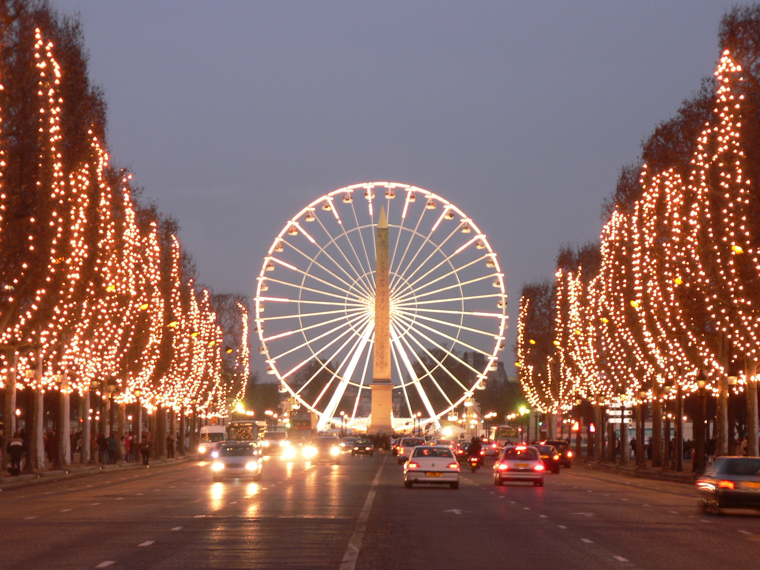 Paris, France:The Place de la Concorde and its Ferris wheel seen from the Champs-Élysées, with end-of-year festive lighting, December 31st, 2005